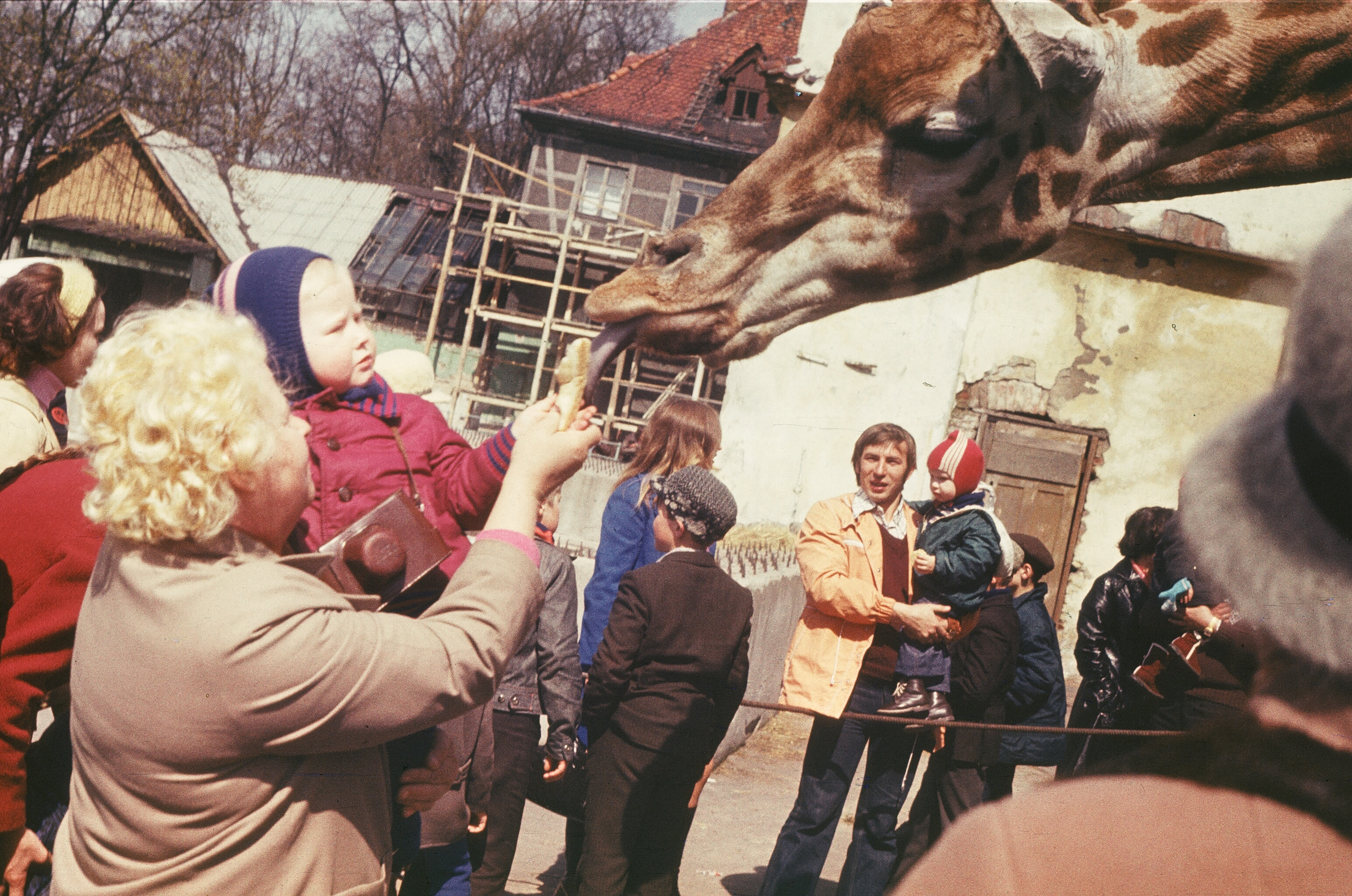 Kaliningrad Zoo